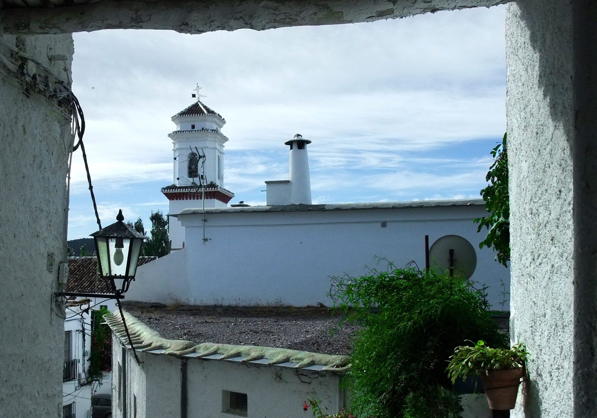 Church in Pitres, Granada in Spain